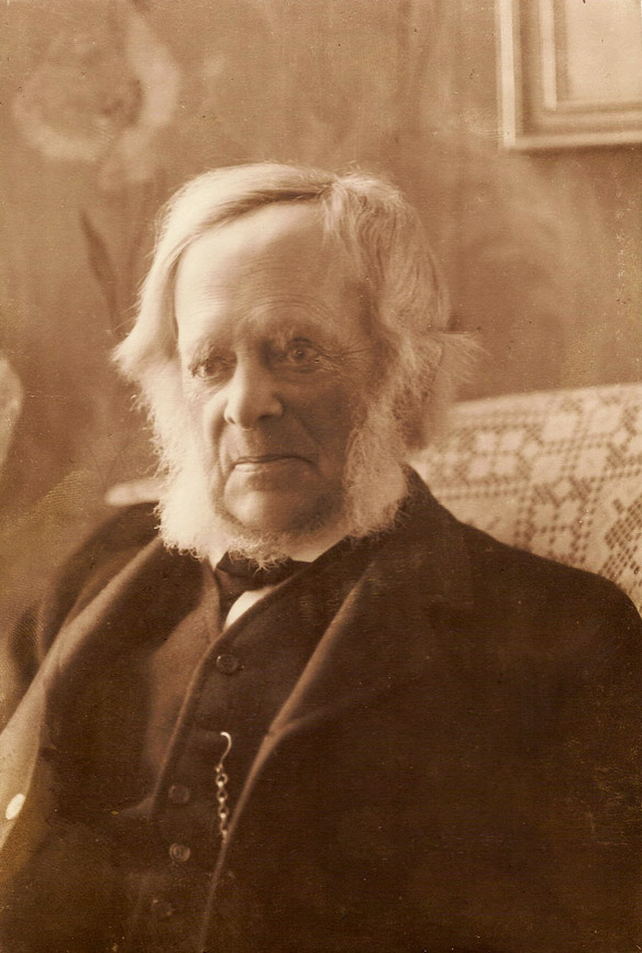 Portrait of swedish professor and philosopher Johan Jacob Borelius (1823-1909).